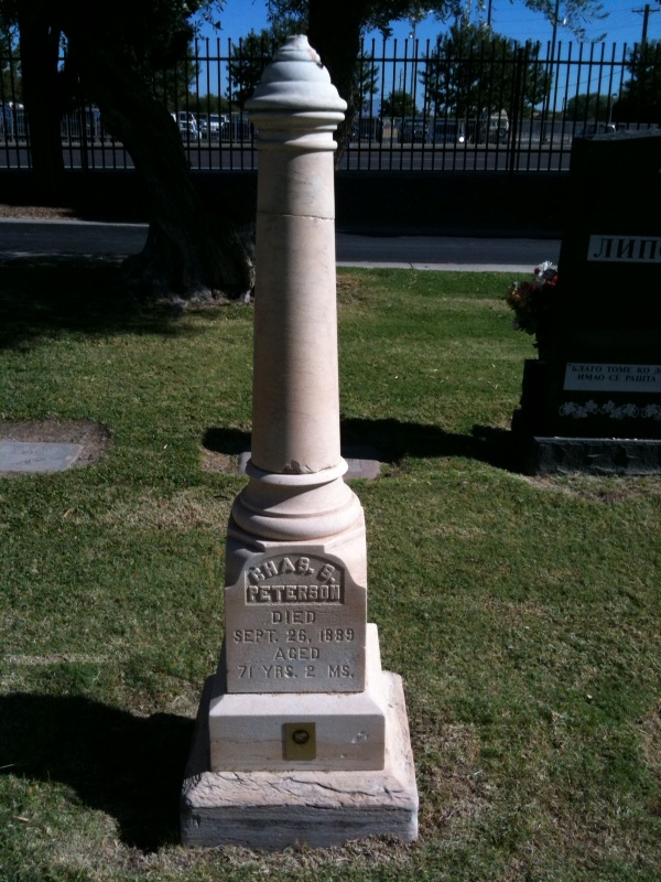 Grave of Charles Sreeve Peterson in 2009, located in Mesa, Arizona